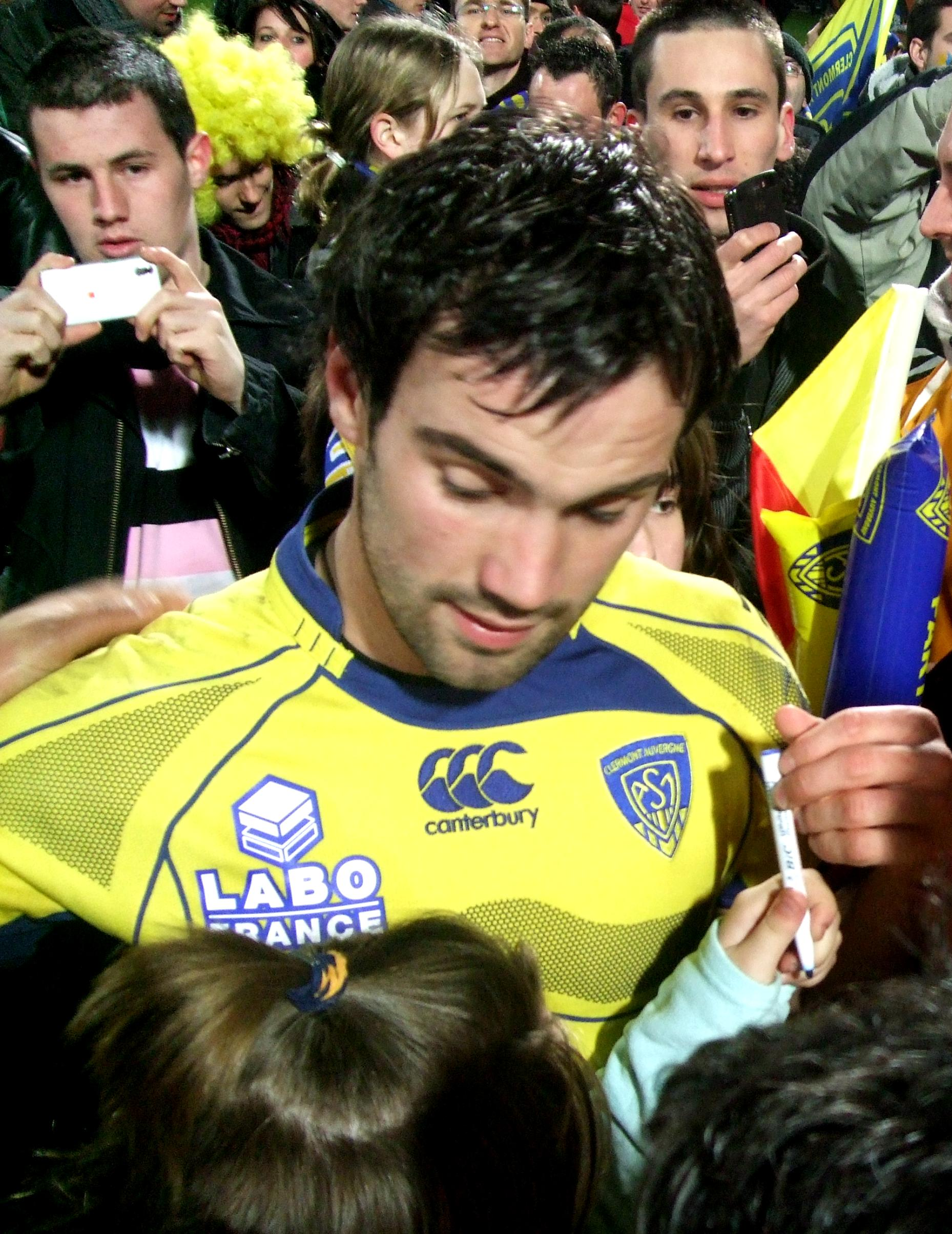 The french rugbyman Morgan Parra with ASM Clermont Auvergne